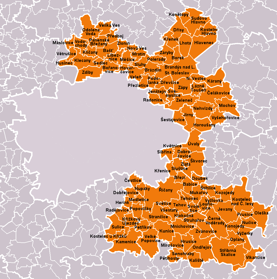 Municipalities of Prague-East District as of January 1, 2007 (110 municipalities in total). White lines of variable thickness show boundaries of municipalities, administrative areas, districts and regions.